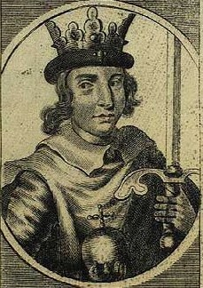 Valdemar den Unge (1209-1231). Det Kongelige Bibliotek.